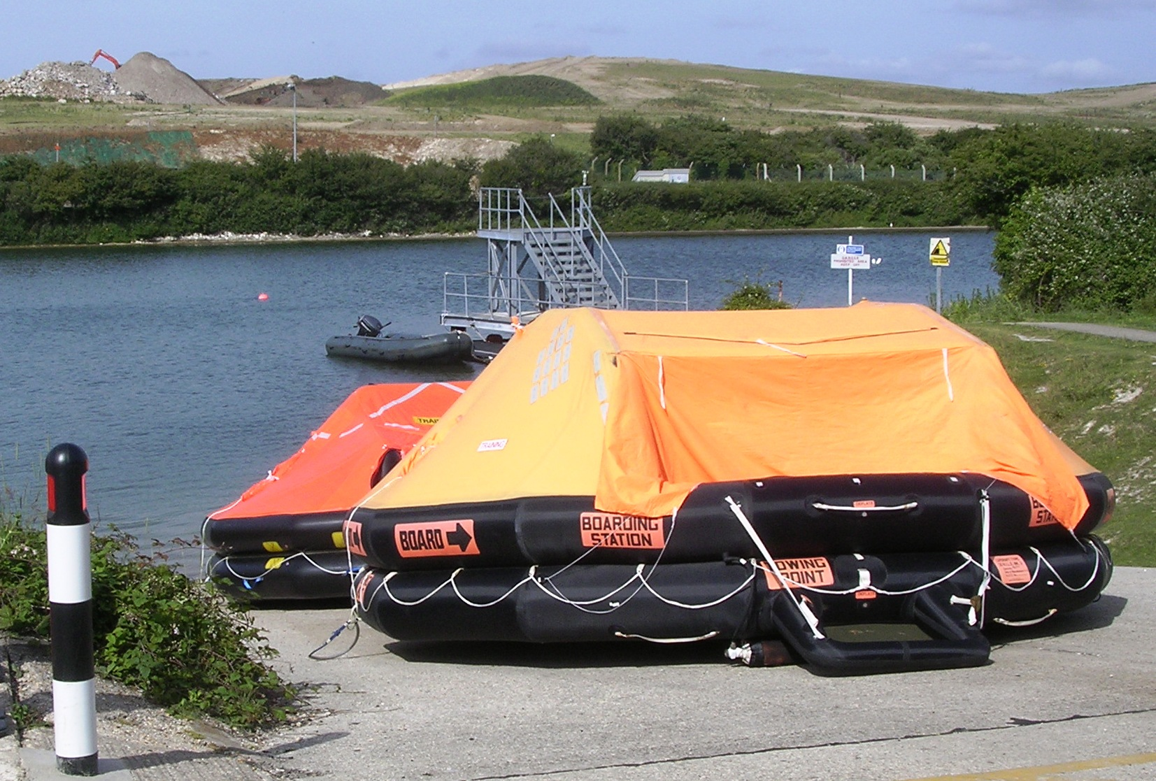 Photo taken by author, June 2008